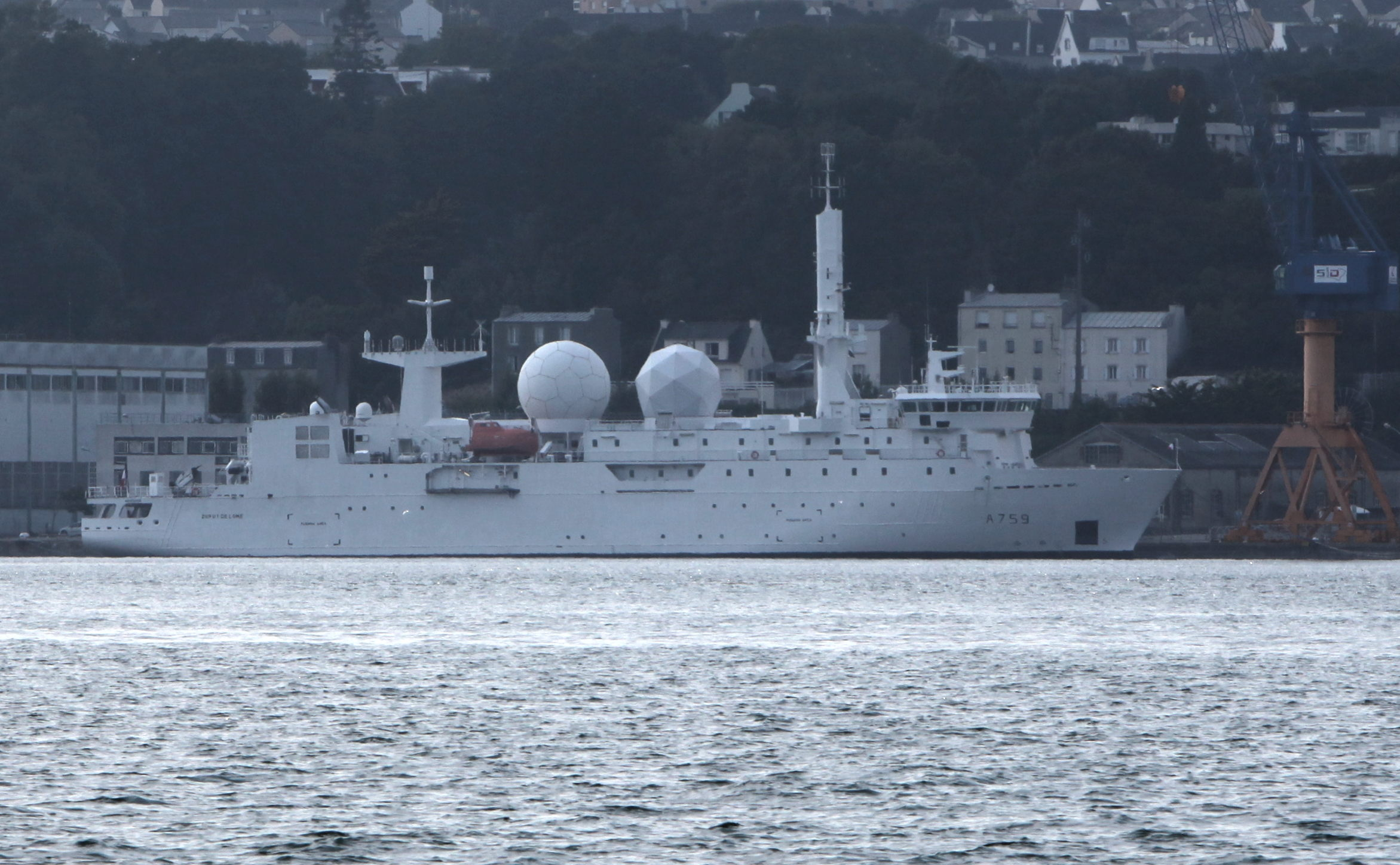 The electronic intelligence ship Dupuy de Lôme (A759)in Brest harbour